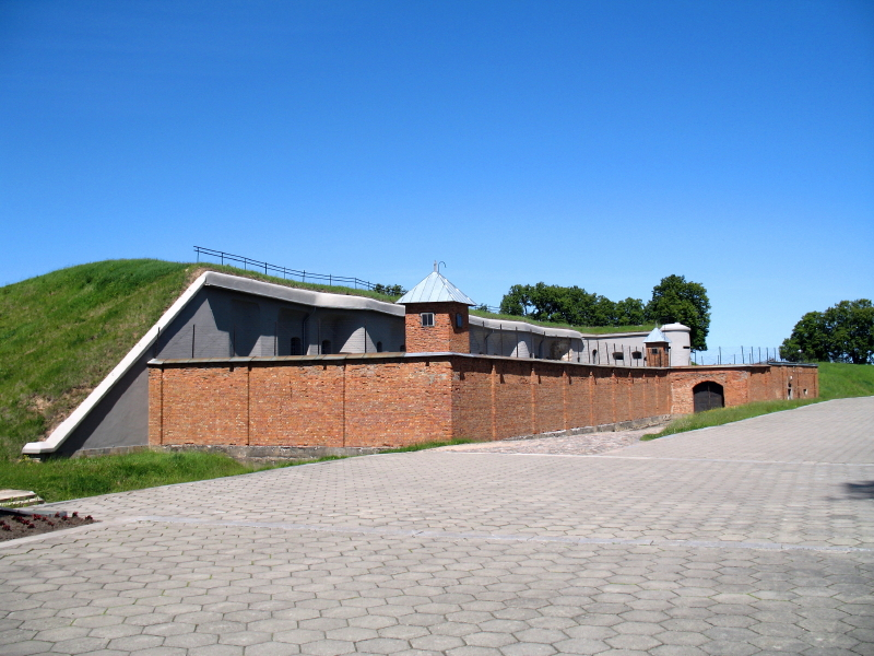 Kaunas Fortress' Ninth Fort.